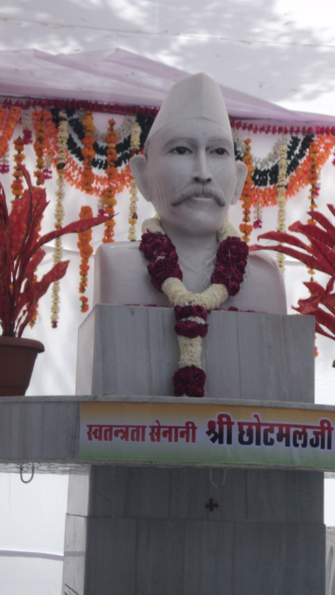 Statue of Freedom Fighter Chotmal Surana at Bali Fort, Rajasthan. The Fort Junction has been named as Chotmal surana Chowk after the Independence Activist.